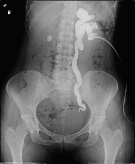 Antegrade pyelography of grade III hydronephrosis with obstruction at the ureterovesical junction due to bladder endometriosis in a 29 year old female. The tip of the nephrostomy is located in an inferior calyx.